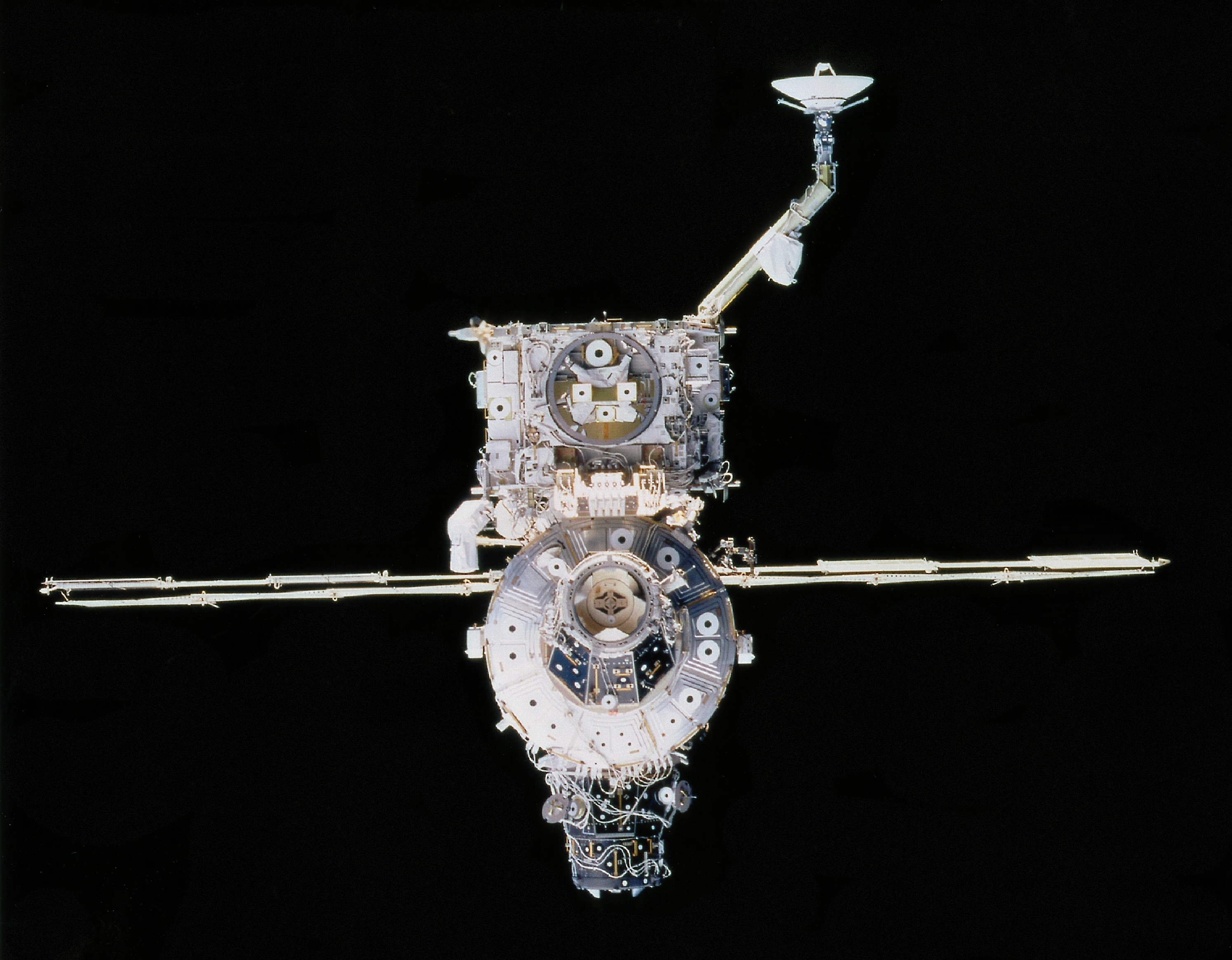 Not long after separation of the Space Shuttle Discovery from the International Space Station (ISS), a crew member was able to use a 70mm handheld camera to grab this image of the station, featuring its newest additions. Backdropped against the blackness of space, the Z1 truss structure and its antenna, as well as the new Pressurized Mating Adapter (PMA-3), are visible in the foreground.